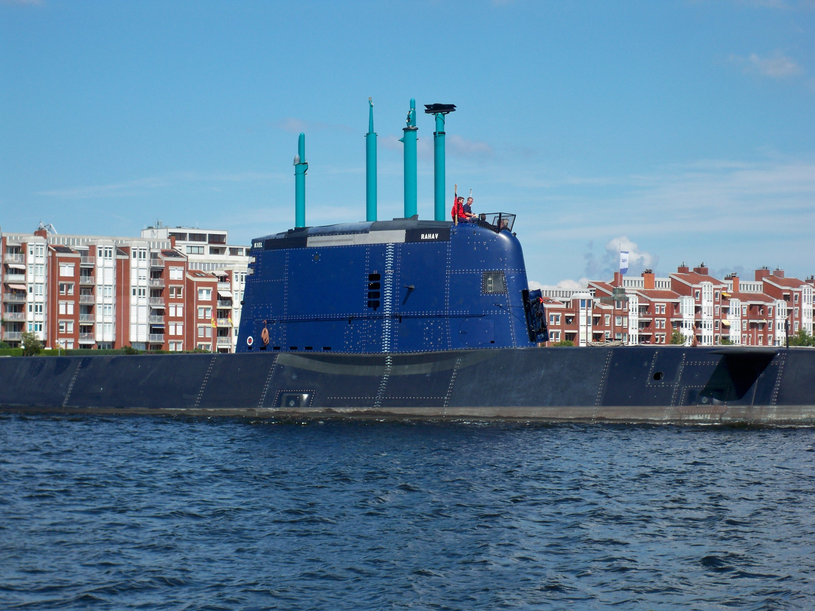 Not yet commissioned Israeli submarine Rahav conducting sea trials in the ports of Wilhelmshaven